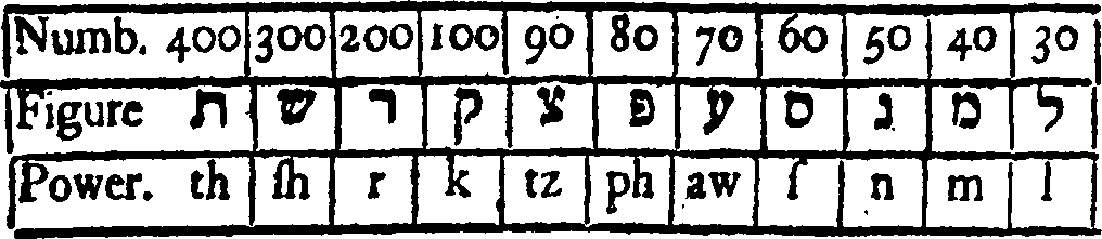 Fleuron from book: Five letters containing a new and easy method of learning the Hebrew language.